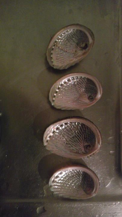 The interior view of Queen Paua from New Zealand immediately after the flesh has been removed Other information The inside view of Queen Paua (Abalone) harvested on New Zealand's South Island